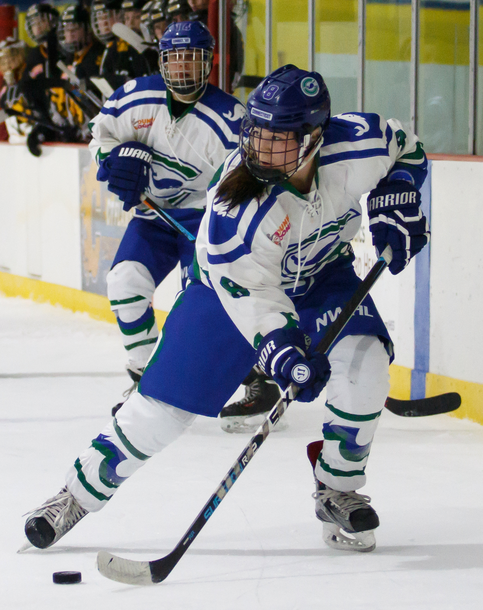 Kelly Babstock playing for the Connecticut Whale in 2017